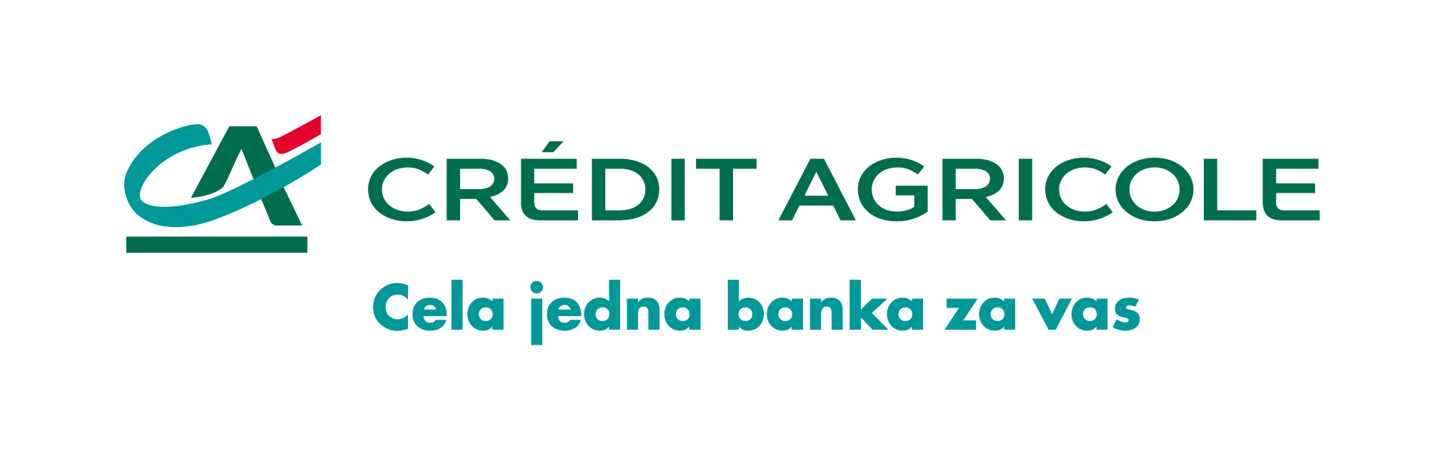 Credit Agricole official logo - Serbia